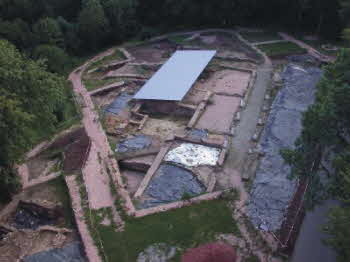 Archaeological excavation of "Vicus Wareswald" in Saarland from the air.